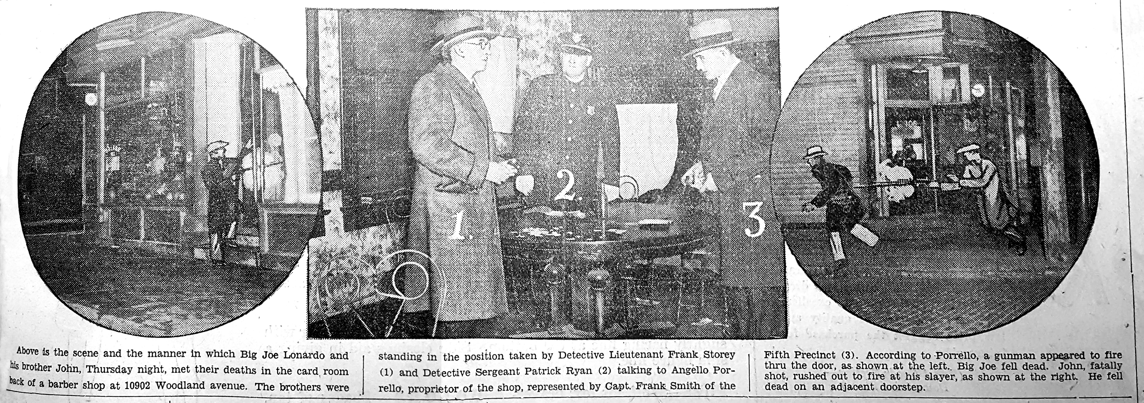 Three photos, overlaid with line drawings, published by the Cleveland Press newspaper, showing the events which led to the murders of Joseph and John Lonardo on October 3, 1927. The left photo shows the front of the Ottavio Porrello barber shop at 10902 Woodland Avenue in Cleveland, Ohio, in the United States. The drawing overlaid on the photograph shows the way the gunmen entered the barber shop. The middle photo shows three law enforcement officers standing where the two Lonardo brothers and eyewitness Angelo Porrello stood when the shooting occurred. The right photo depicts the front entrance to the barber shop, while the line drawing depicts a fleeing gunman with a hypothetical John Lonardo in pursuit, firing a handgun. (This is an inaccuracy, as Lonardo dropped his handgun inside the shop.)